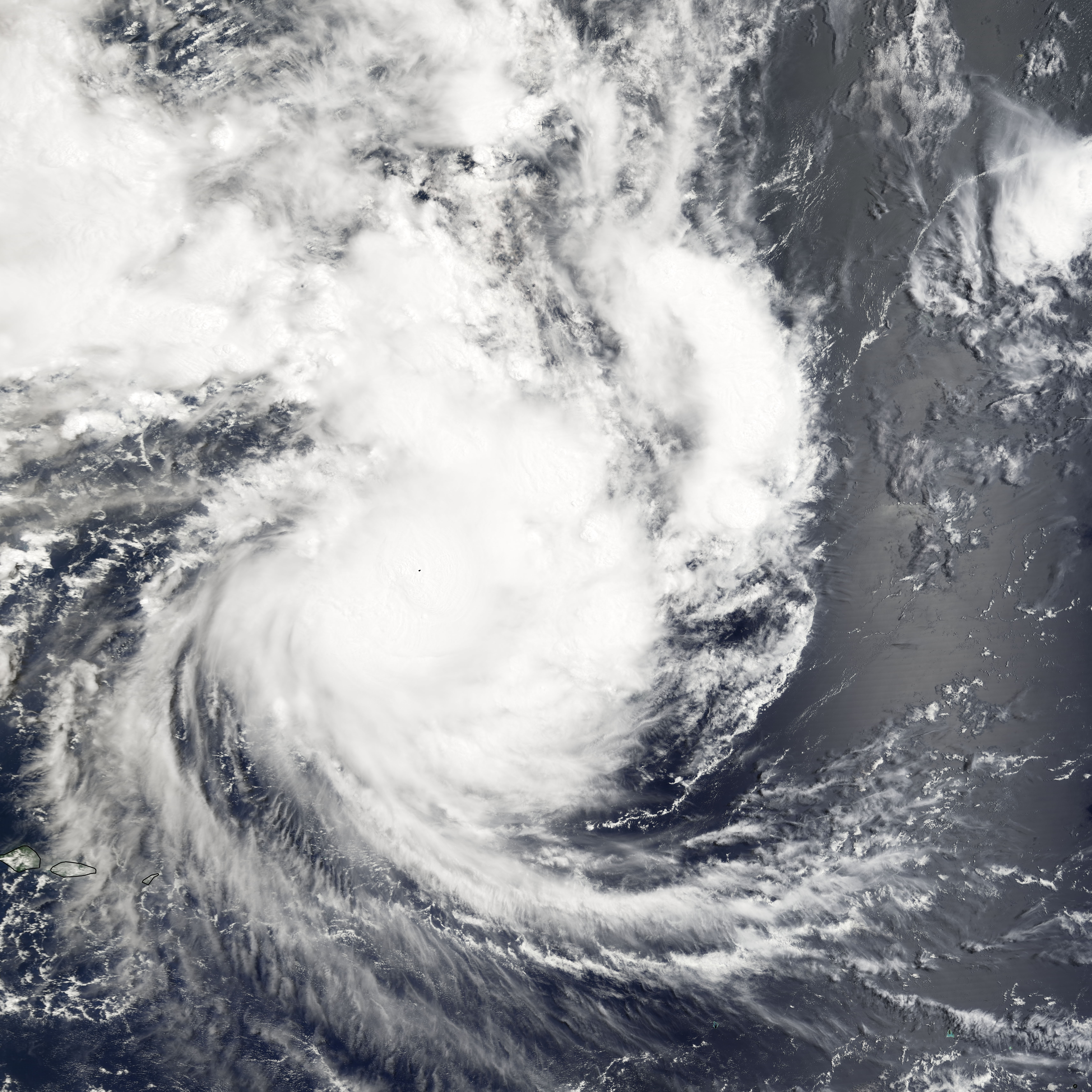 On February 27, 2005, Tropical Cyclone Percy continued to gather steam as it struck Swain’s Island, a tiny island in American Samoa. Tropical Cyclone Percy is the fourth large cyclone to sweep across the South Pacific in as many weeks, and at the time this image was taken at 10:05 a.m., local time, the storm was the equivalent of a Category 3 Hurricane with winds of 195 kilometers per hour (121 mph) and gusts to 240 kph (150 mph). By March 1, Percy would reach Category 4 status on the Saffir-Simpson Hurricane Scale, with winds of 213 kph (132 mph) and gusts to 260 kph (161 mph). The Moderate Resolution Imaging Spectroradiometer (MODIS) on NASA’s Terra satellite captured this true-color image of the storm on February 27 at 2105 UTC.